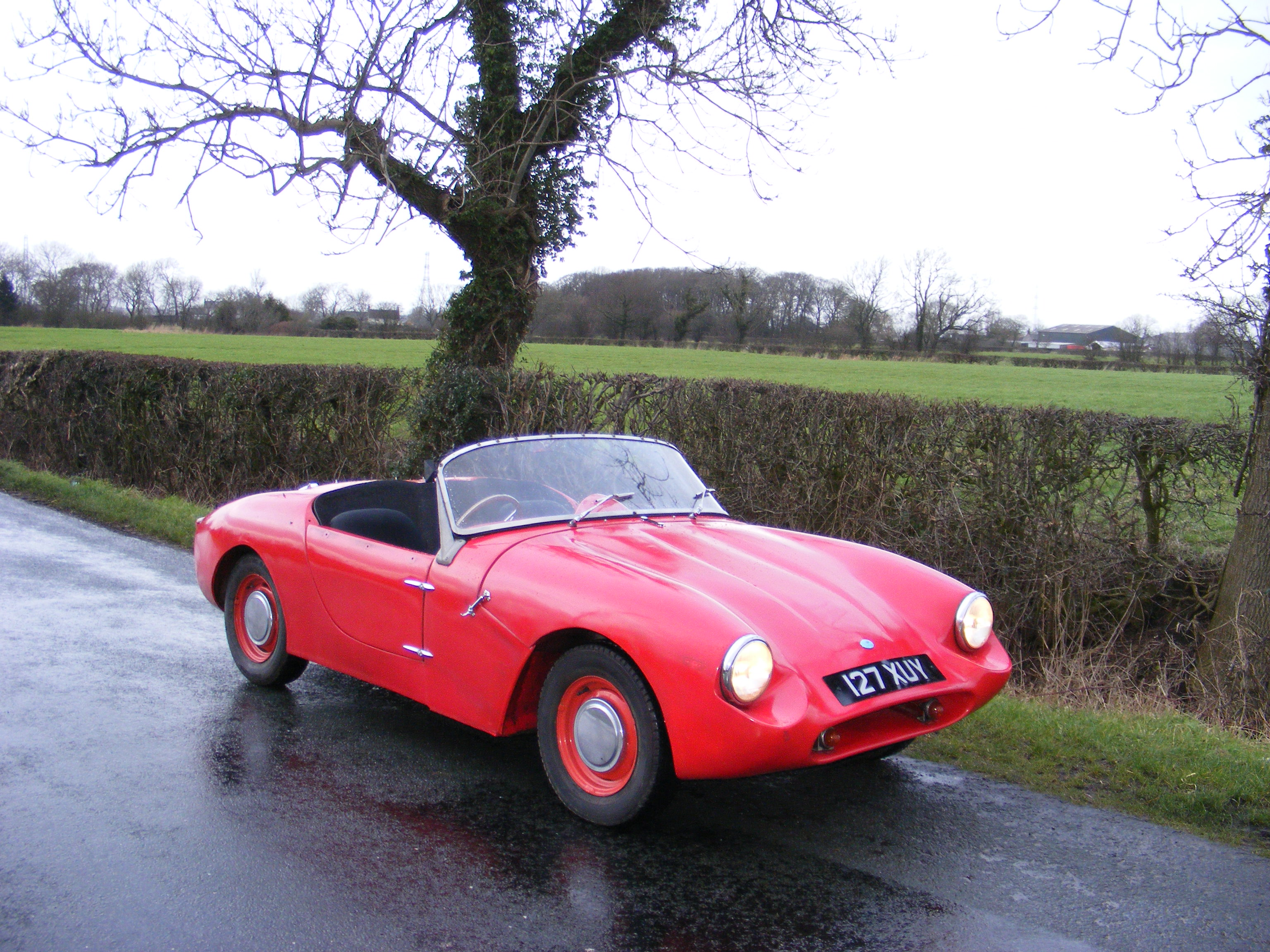 1962 Fairthorpe Electron Minor British Sports Car